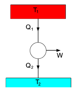 Schematic heat engine